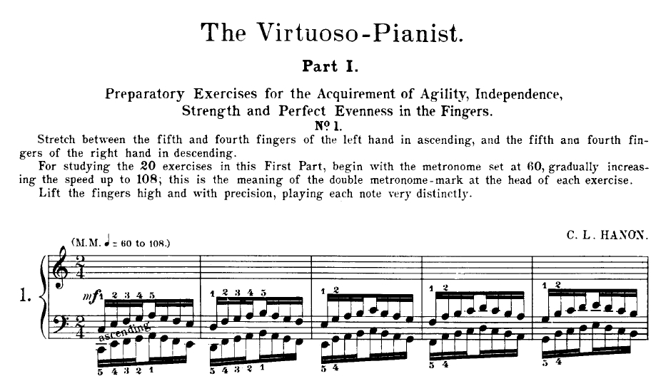 Hanon example of studies